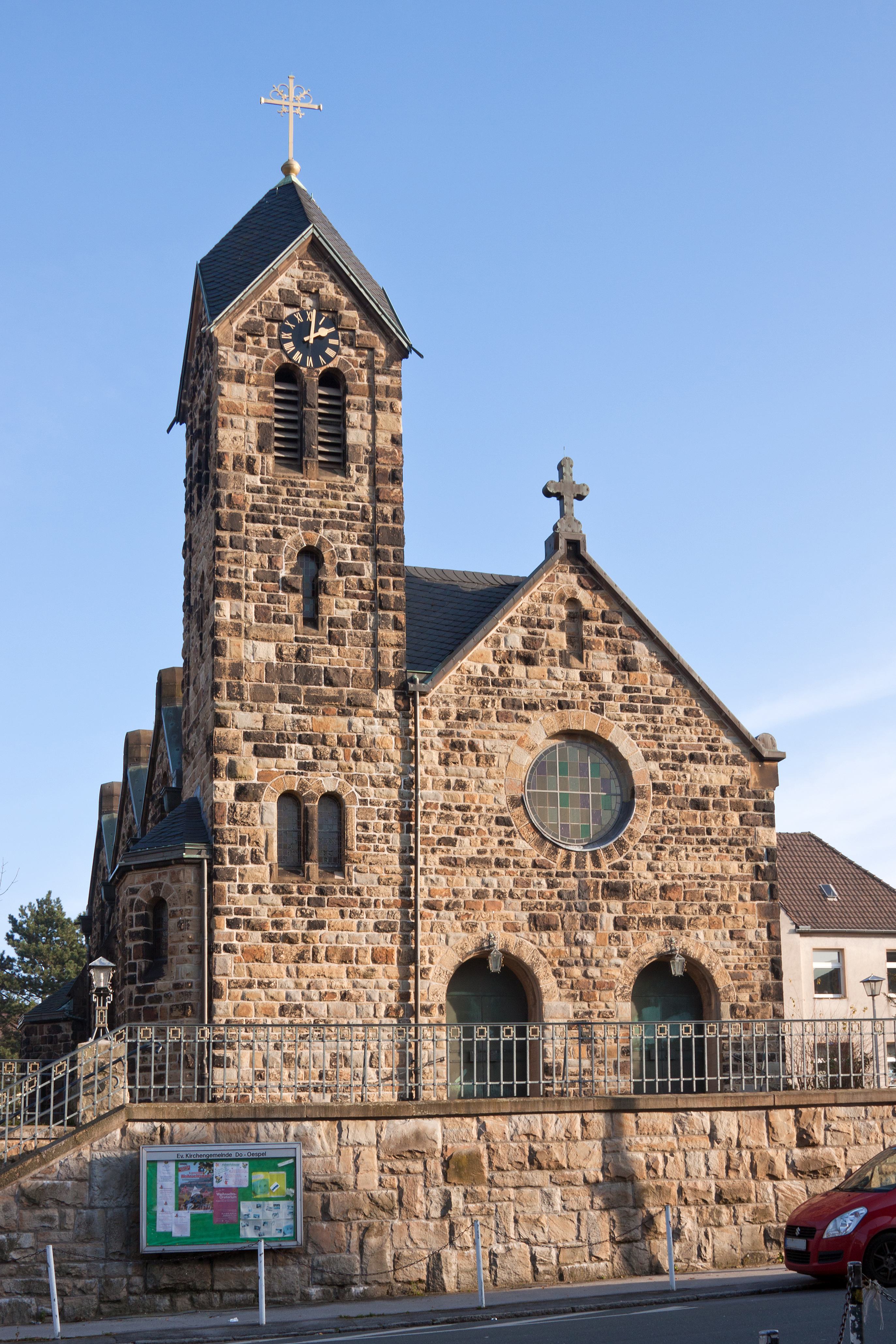 Dortmund-Oespel, church